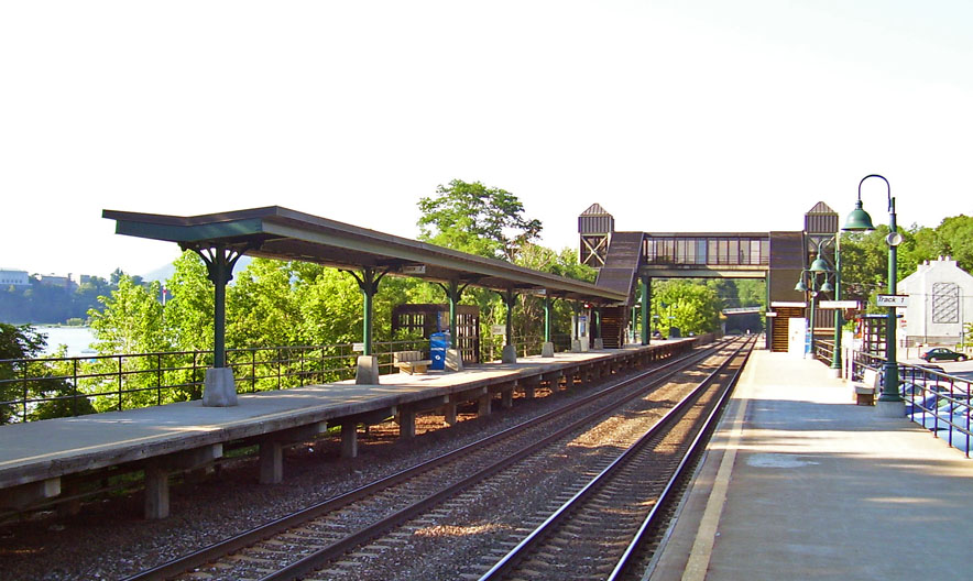 Photographed by Daniel Case 2006-08-05.